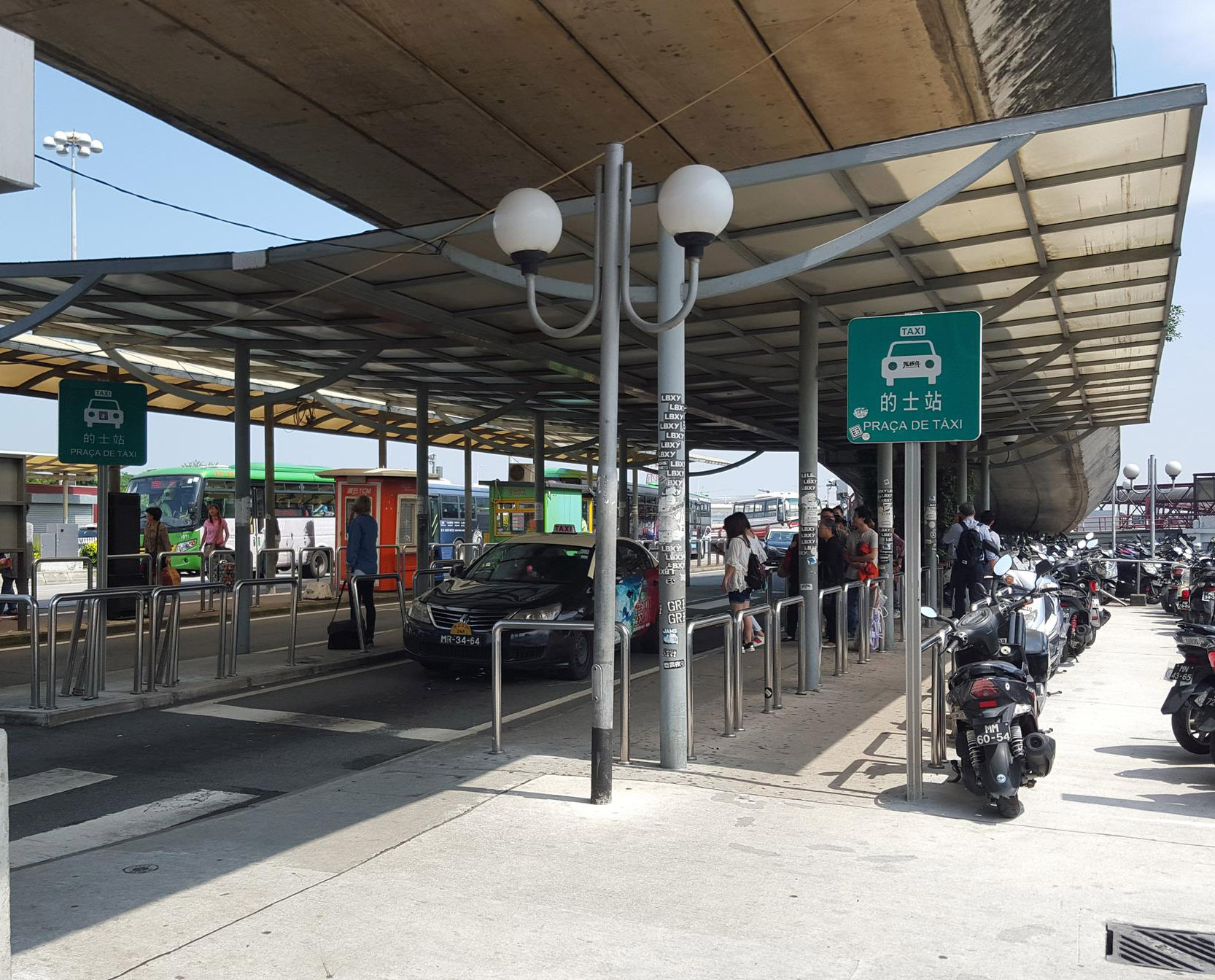 Taxi Stand at Macau Ferry Terminal